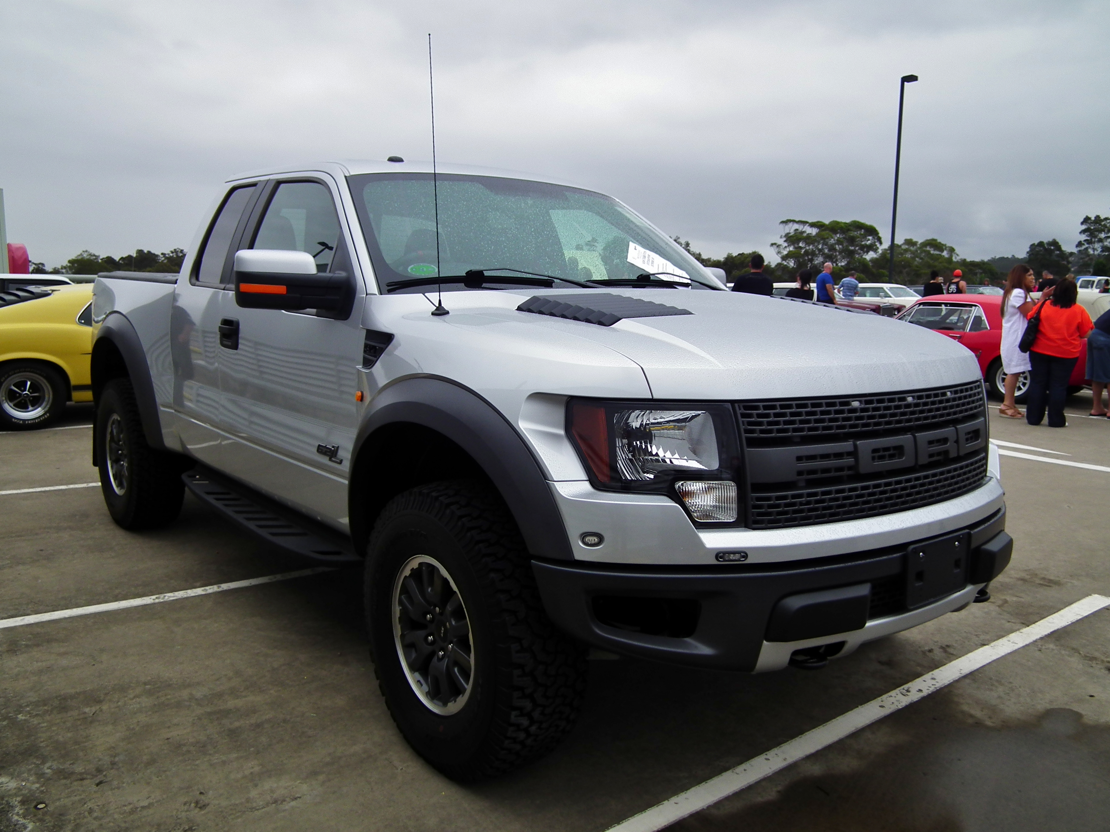 2012 Ford F150 SVT Raptor Supercab pickup. Taken at the 2013 New South Wales All American Day, held at Castle Towers Shopping Centre, Castle Hill, Sydney.